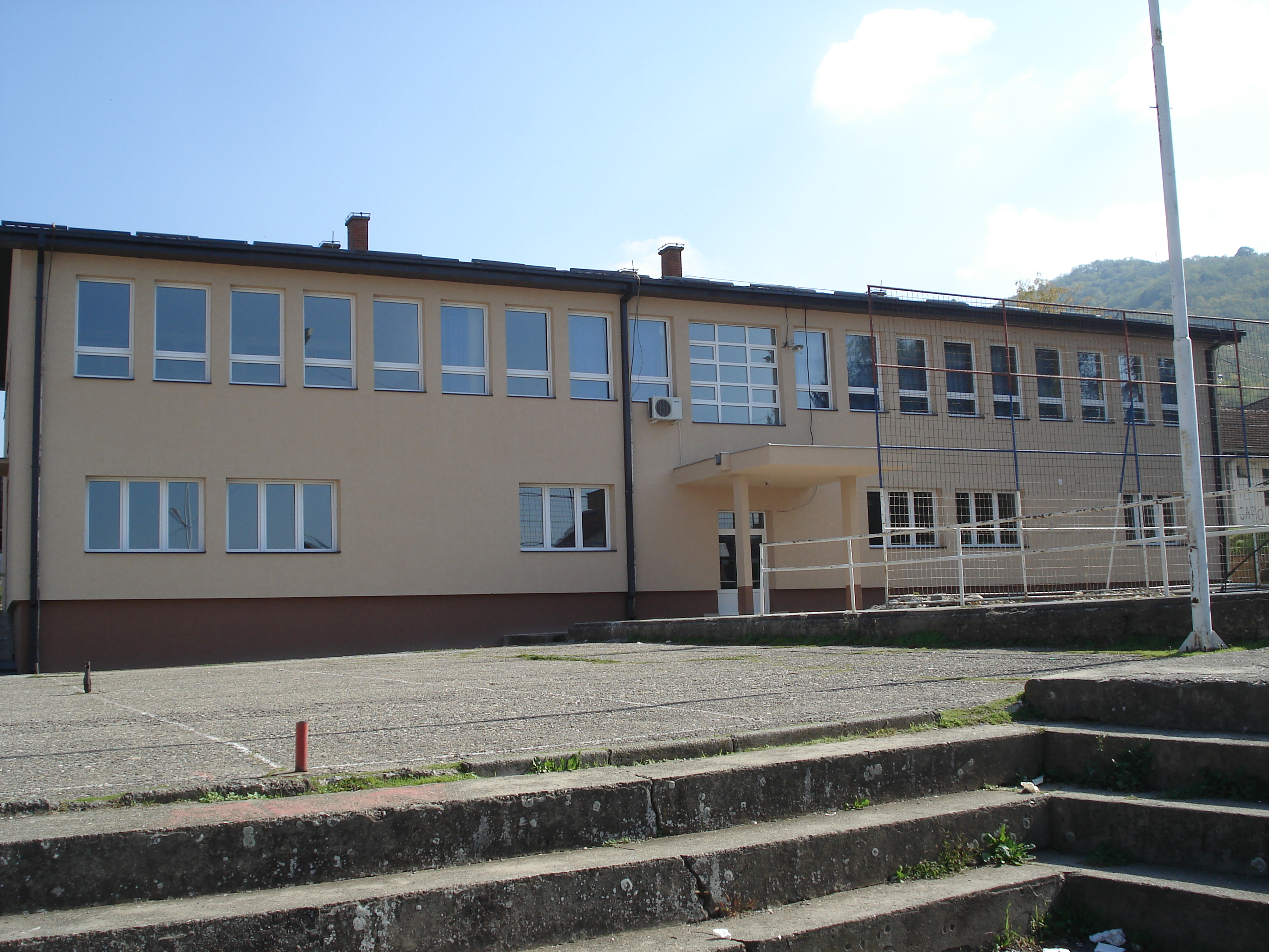 Gimnazija „Stevan Jakovljevic", mala zgrada 02